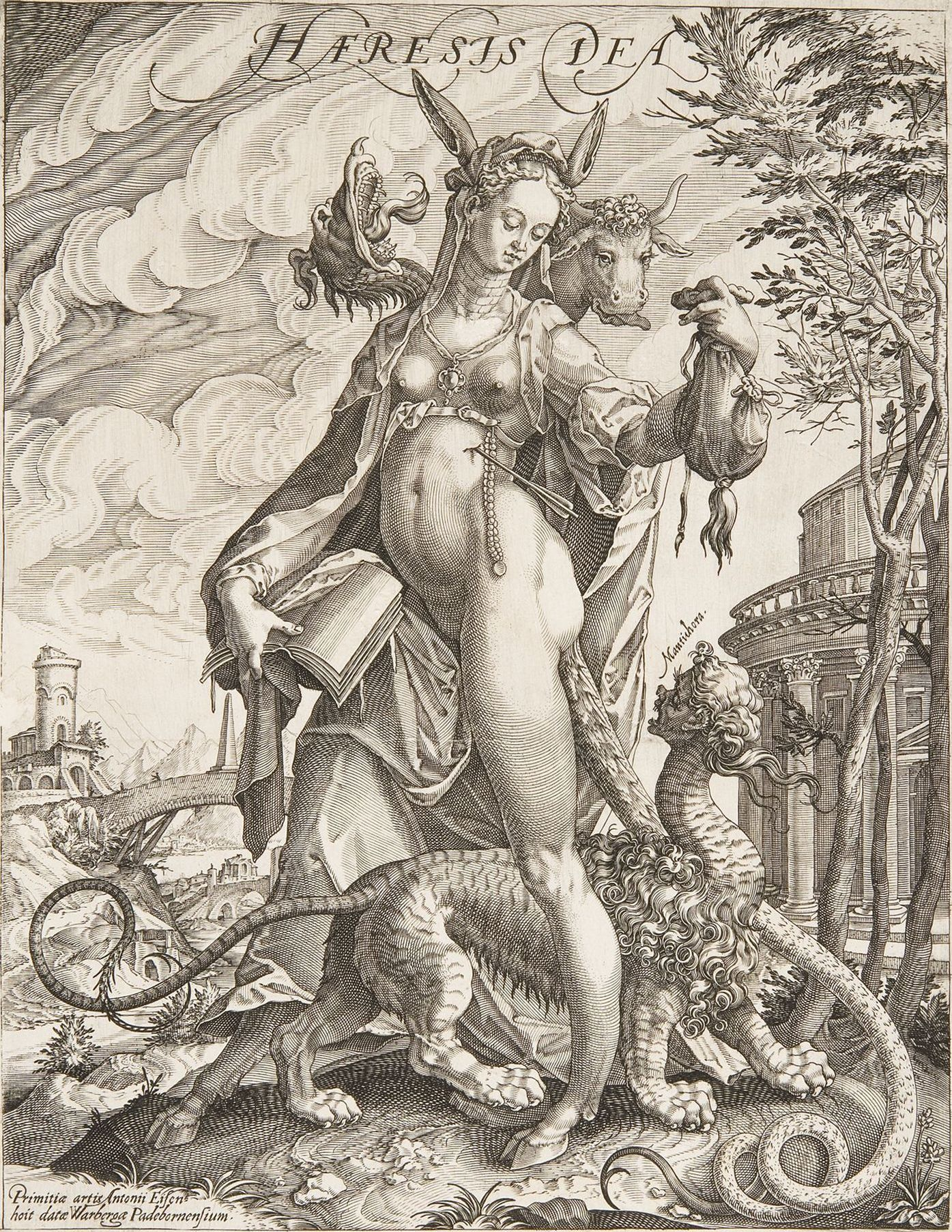 Heresy as goddess together with a Manticore